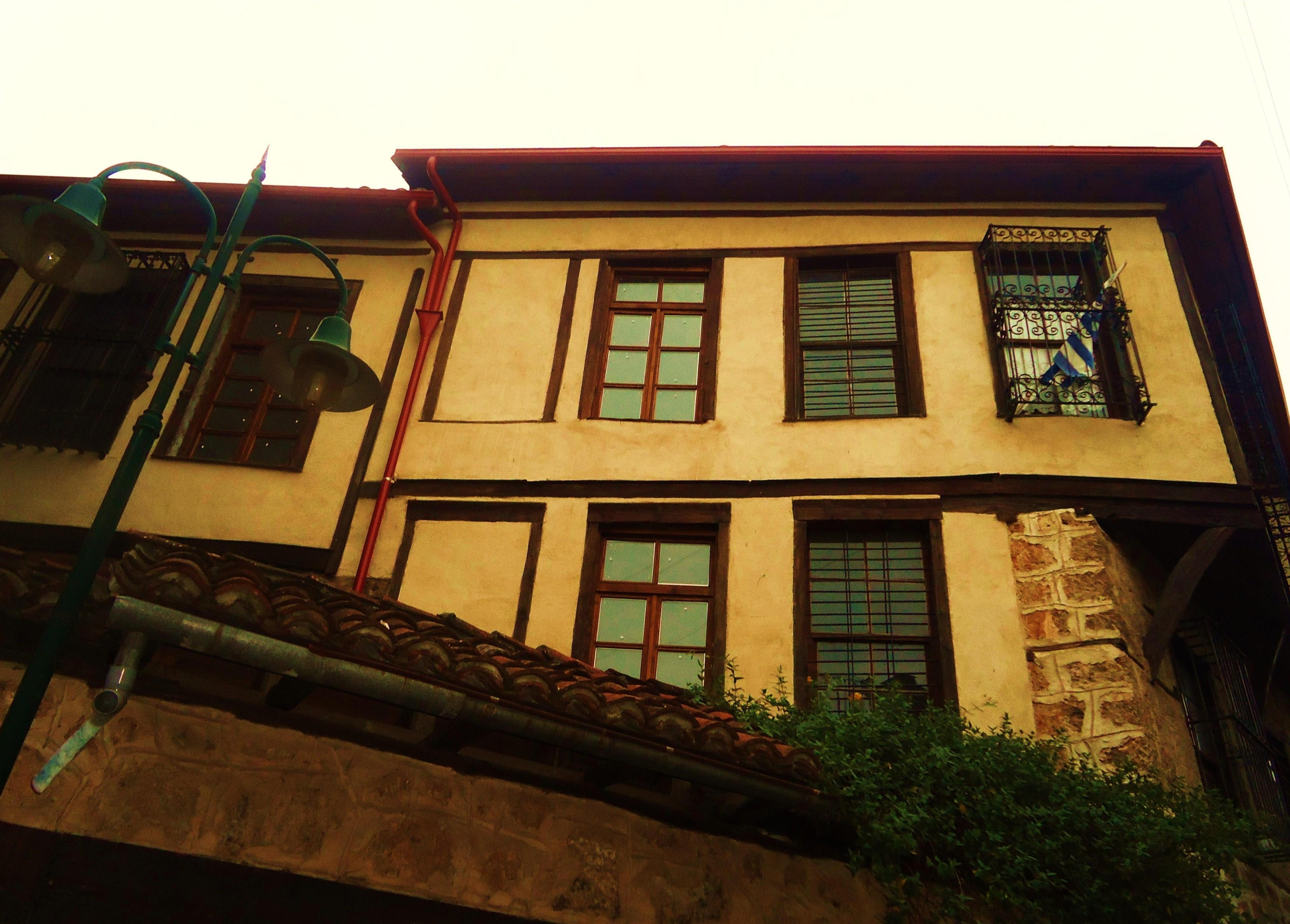 building of naoussa